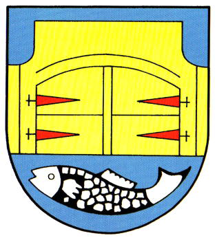 Coat of arms of the municipality of Jade